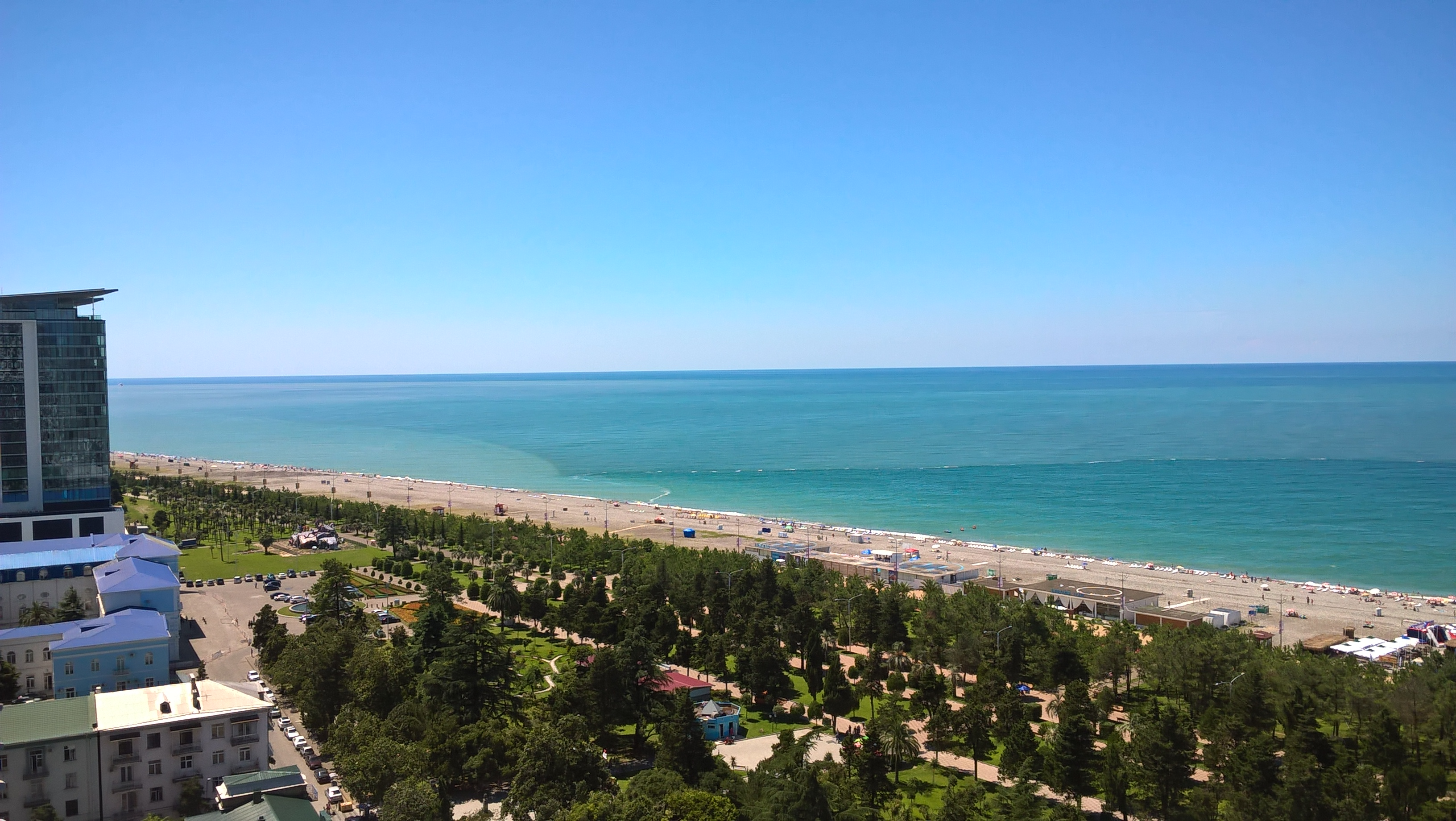 Seaside of Batumi